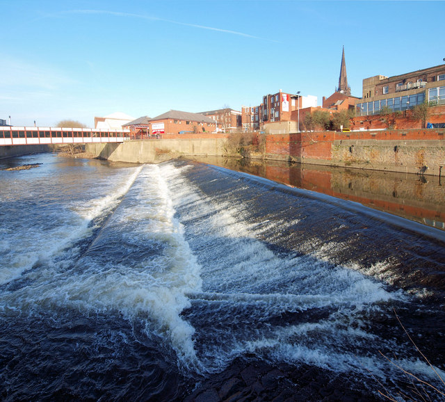 Weir is it? A play on the local accent in South Yorkshire.